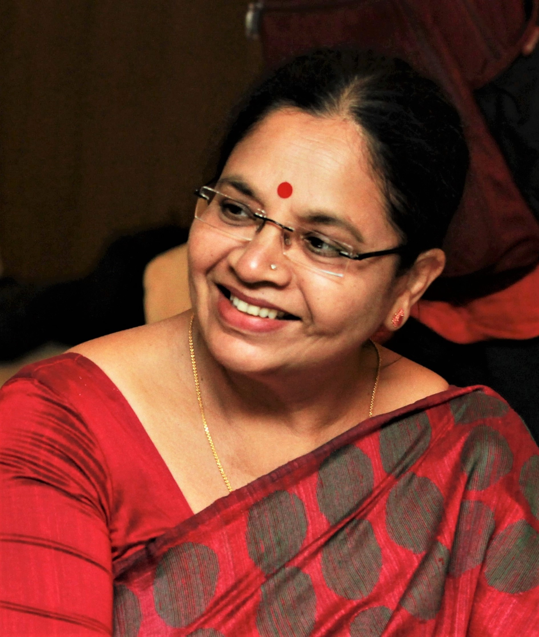 Bhagyalakshmi